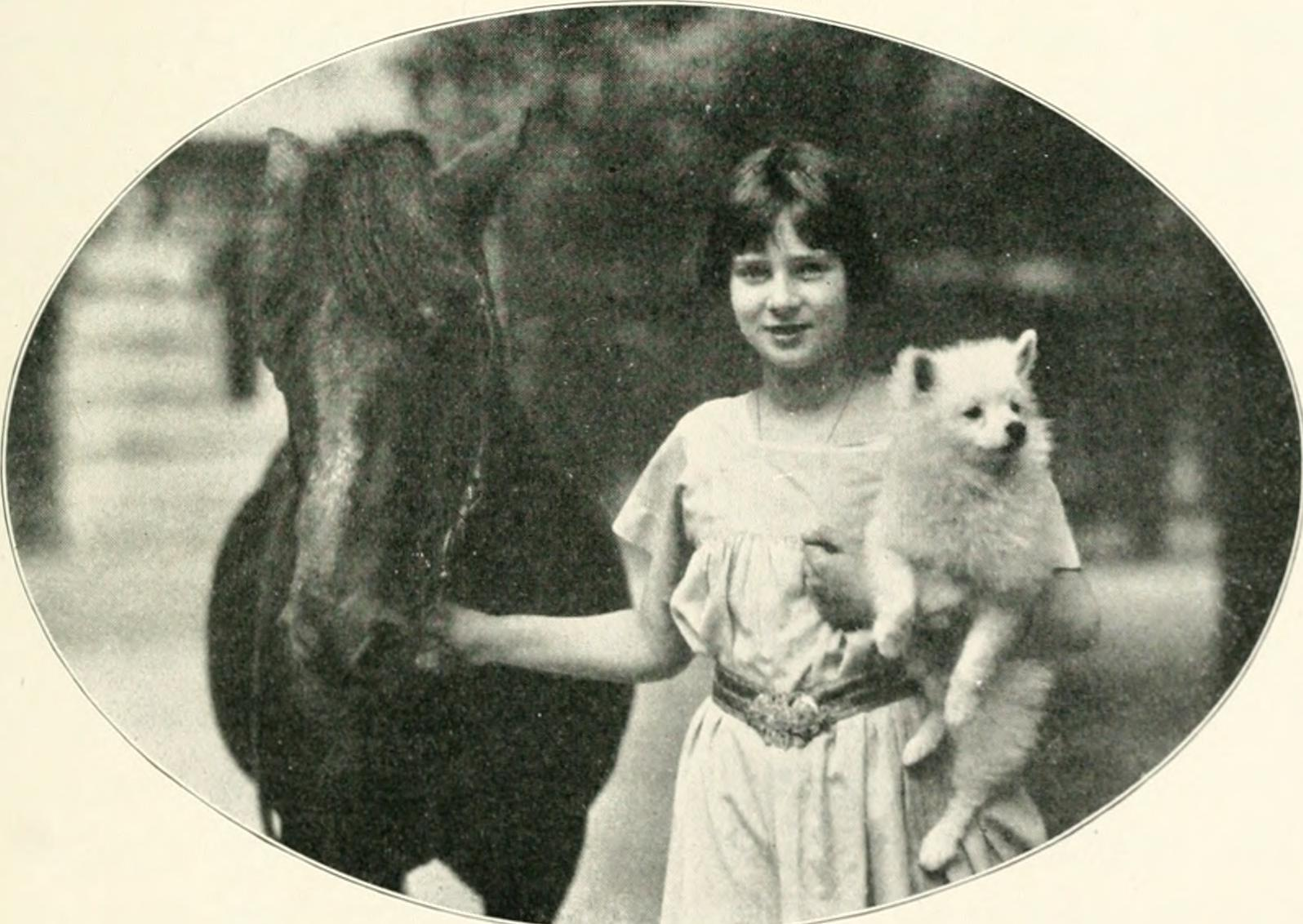 Princess Ileana of Romania Identifier: secretsofbalkans00vopi Title: Secrets of the Balkans Year: 1921 (1920s) Authors: Vopicka, Charles J., 1857-1935 Subjects: World War, 1914-1918 -- Balkan Peninsula Eastern question (Balkan) Balkan Peninsula -- Politics and government Publisher: Chicago : Rand, McNally & company View Book Page: Book Viewer About This Book: Catalog Entry View All Images: All Images From Book Click here to view book online to see this illustration in context in a browseable online version of this book. Text Appearing After Image: Princess Illiana of Roumania